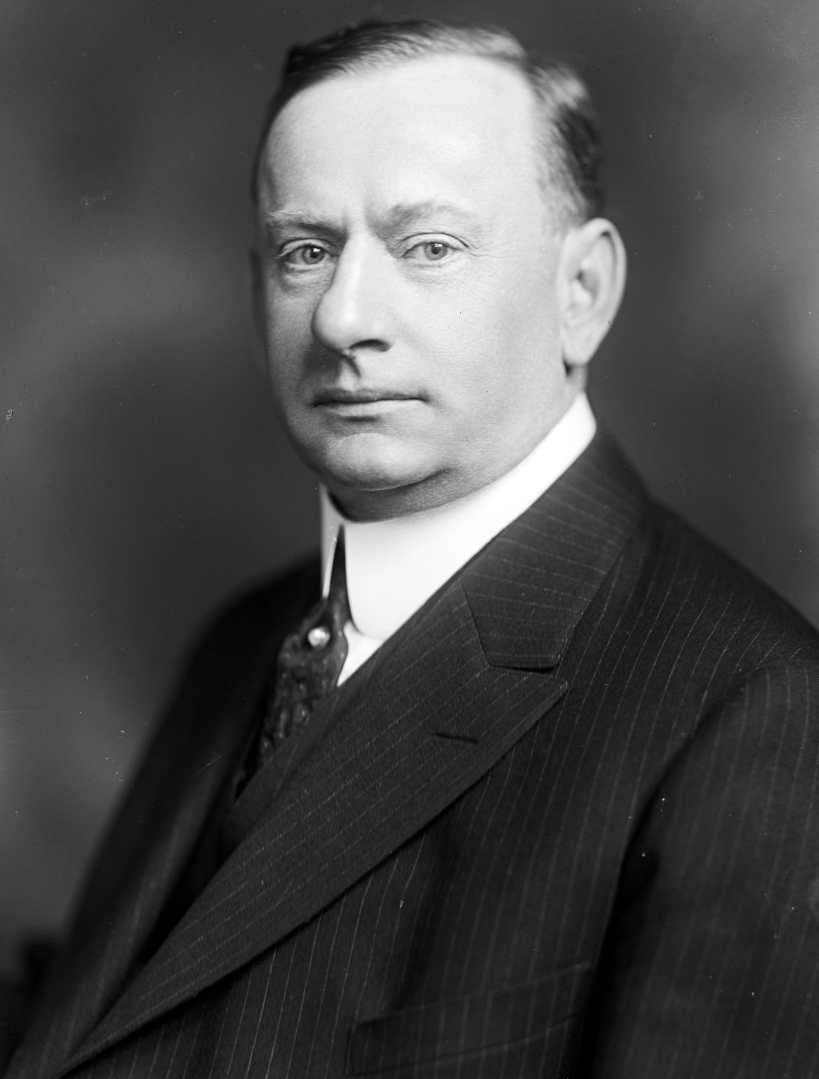 Leonidas C. Dyer, US Representative from Missouri